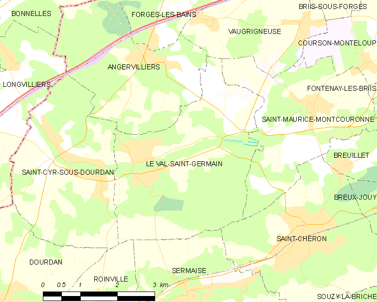 Map of French municipality Le Val-Saint-Germain